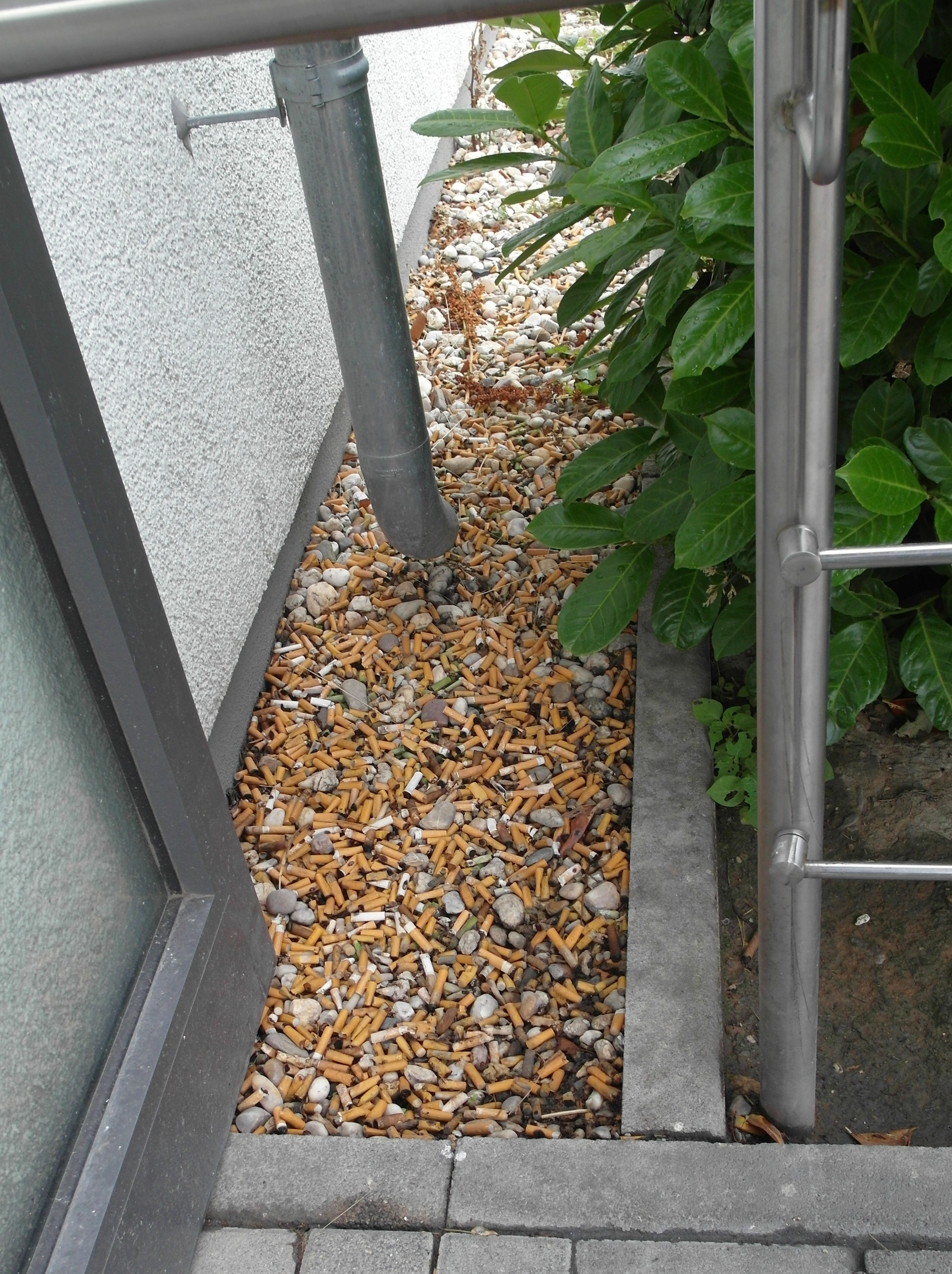 Cigarette butts on the ground near the entrance of an emergency hospital with a no-smoking policy; Germany